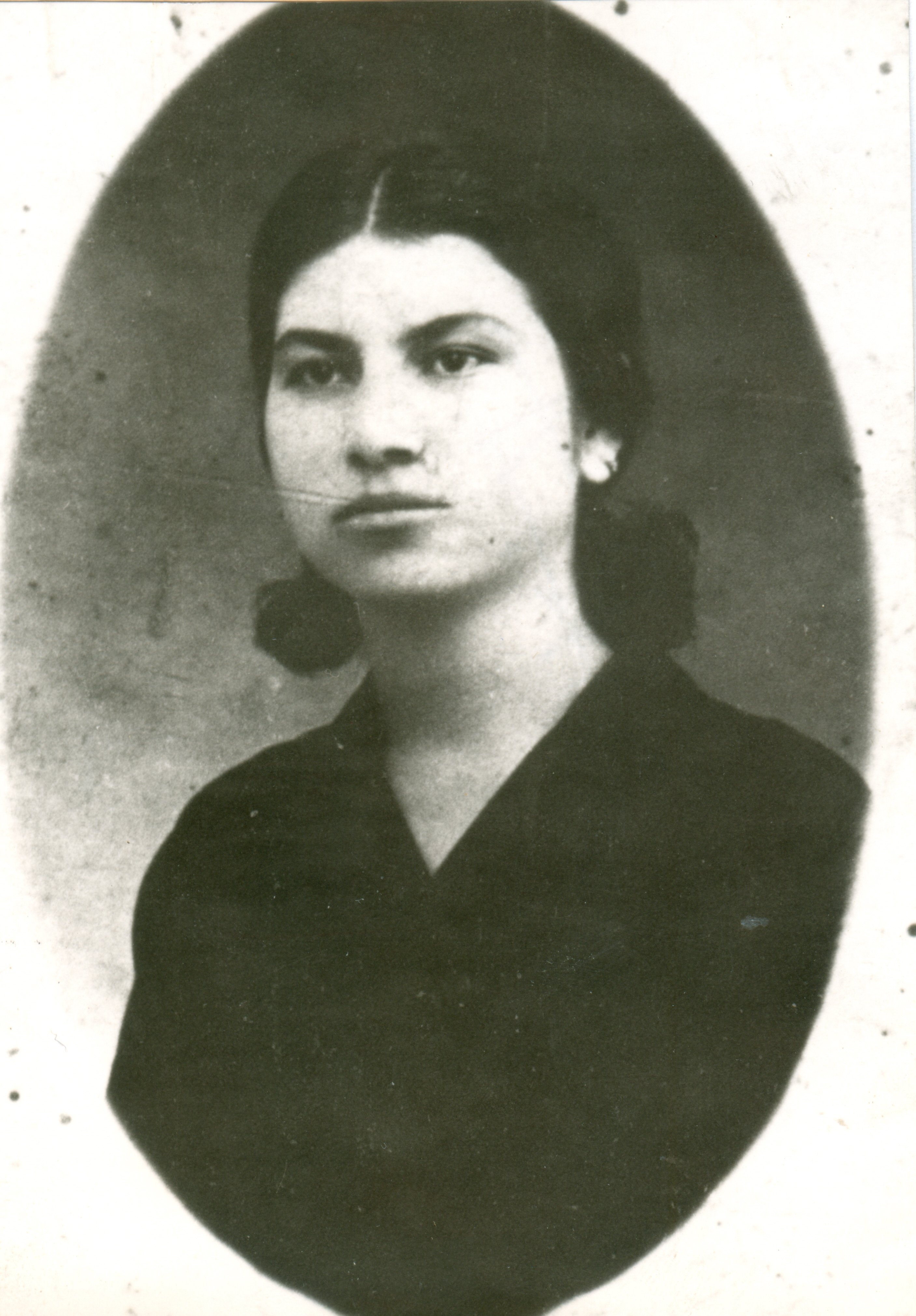 Natalija Dugosevic, participant of the National Liberation Struggle from Negotin, teacher, wife of National Hero Veljko Dugosevic as a student Srpski (latinica): Natalija Dugošević, učesnik Narodnooslobodilačke borbe iz Negotina, učiteljica, supruga narodnog heroja Veljka Dugoševića